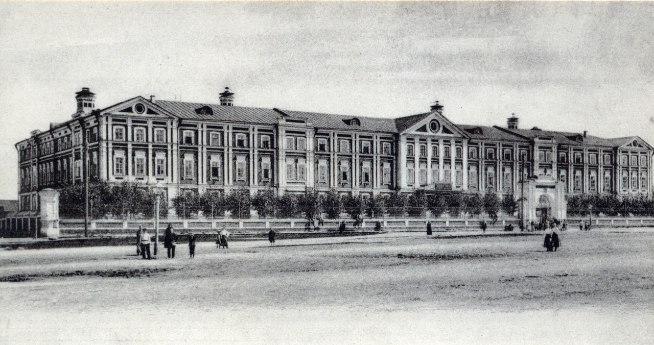 In 1883 a Russian merchant N.A.Bugrov offered to the authorities to build up for the mendicants a building in front of the Krestovozdvizhensky monastery. The project was developed by the architect N.A.Fredlikh.